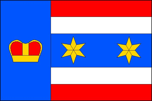 Municipal flag of Žarošice village, Hodonín District, Czech Republic.